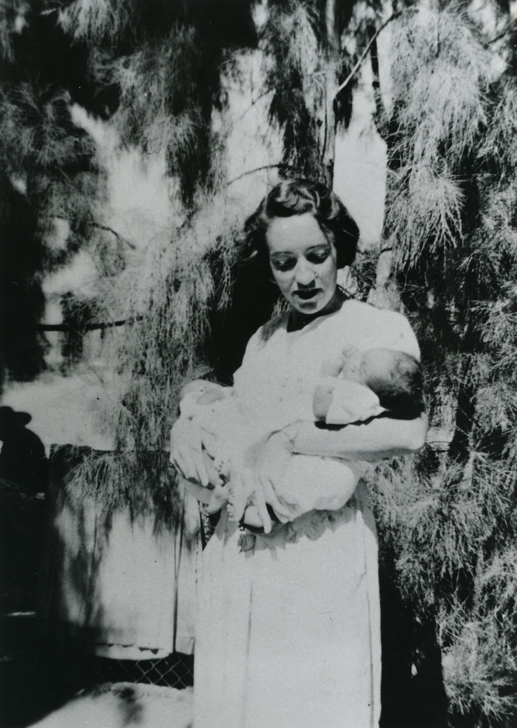 Sister Ellen Kettle with Albert Namatjira's twin grandsons Mark and John - both over 8 pounds. Mark later died at Hermannsburg. PH0127/0054